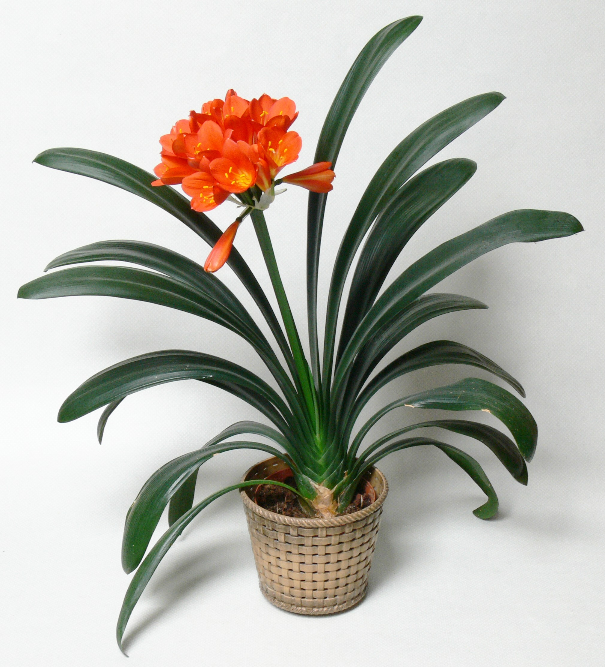 Natal lily, Bush lily, Kaffir-lily